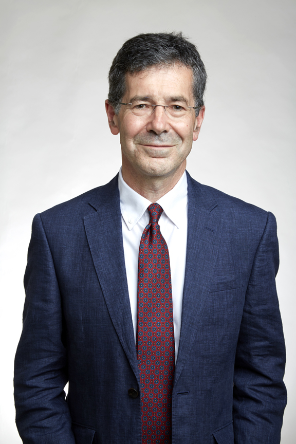 Dominic Kwiatkowski is head of the parasites and microbes programme at the Wellcome Sanger Institute in Cambridge and a Professor of Genomics at the University of Oxford Attribution: The Royal Society